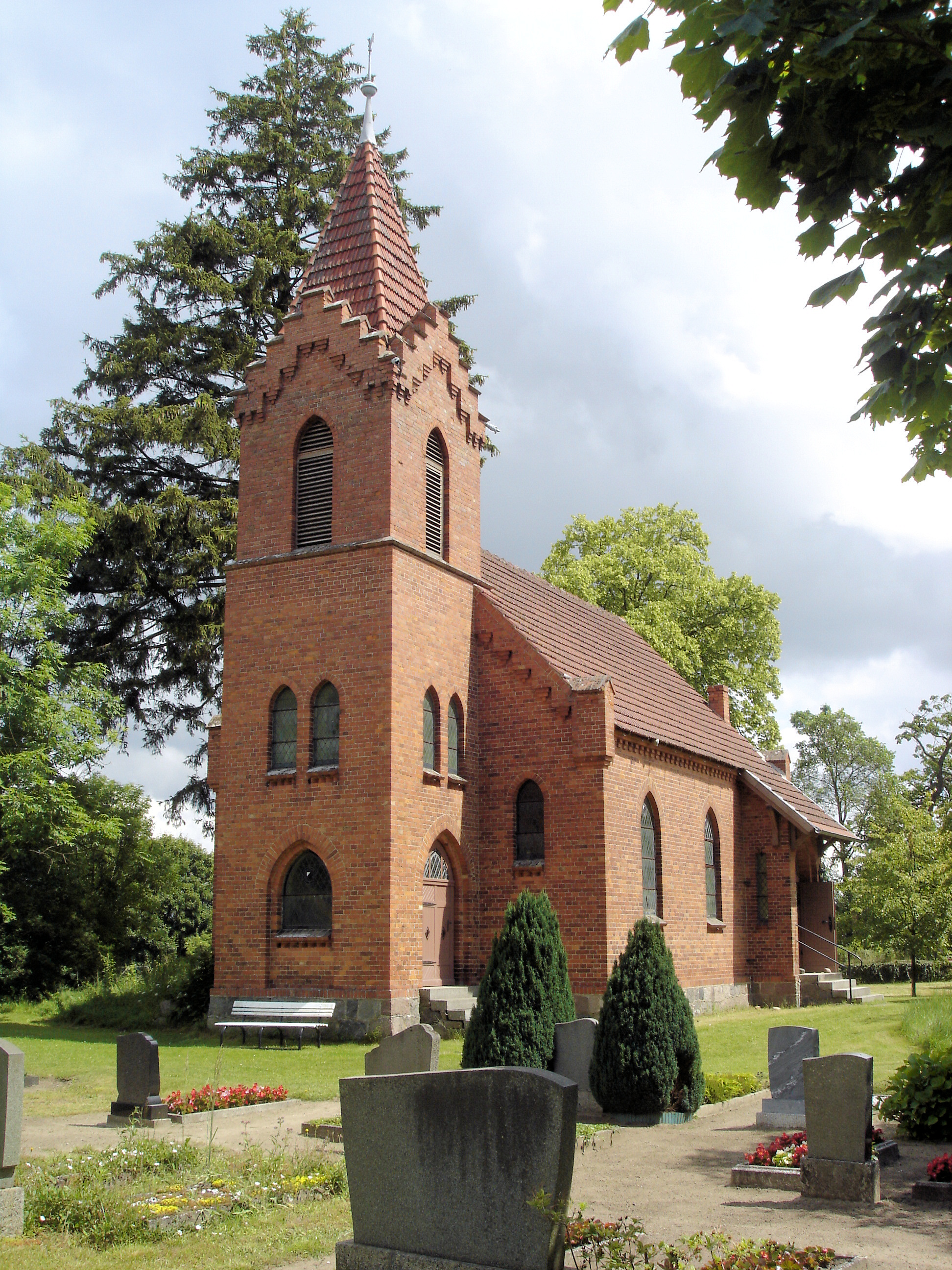 Church in Krümmel, Mecklenburg, Germany